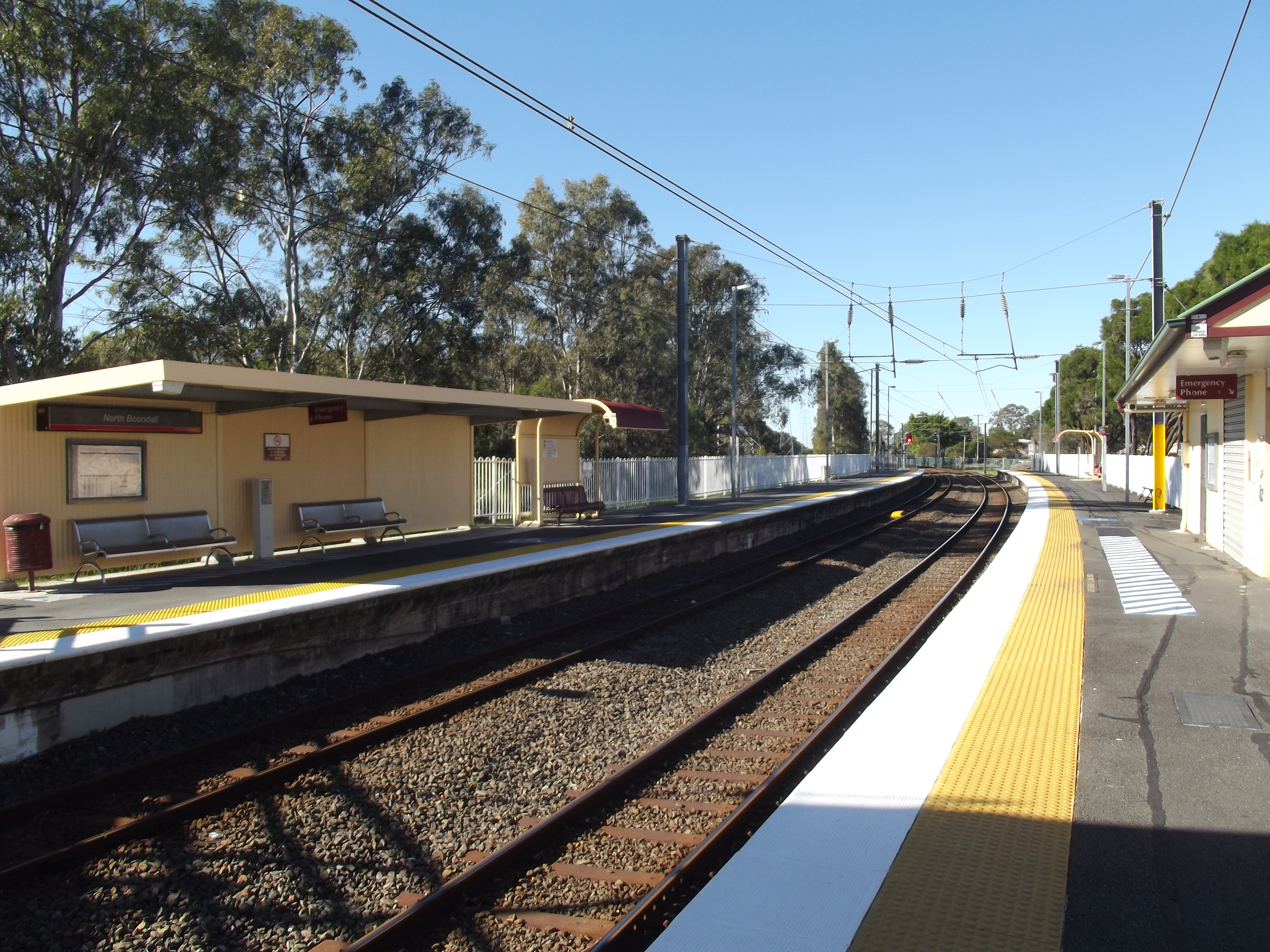 A photo of the North Boondall railway station, operated by TransLink, located in Brisbane, Australia.